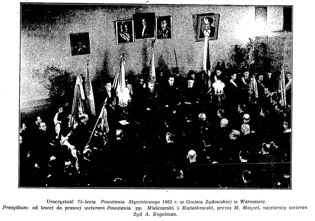 75th anniversary of January Uprising (1863) - Jewish Community in Warsaw 1938